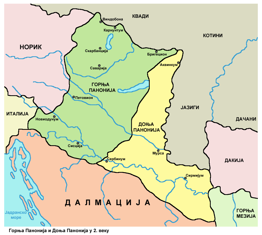 Historic map - Roman provinces Pannonia Superior and Pannonia Inferior in the 2nd century.